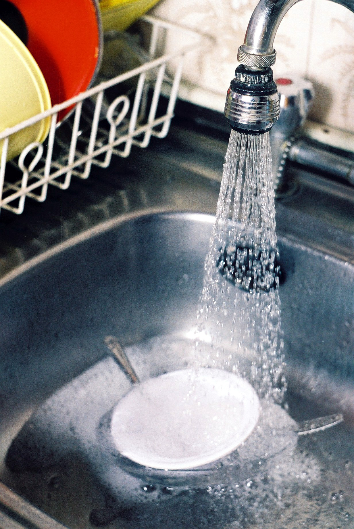 Aluminium sink.